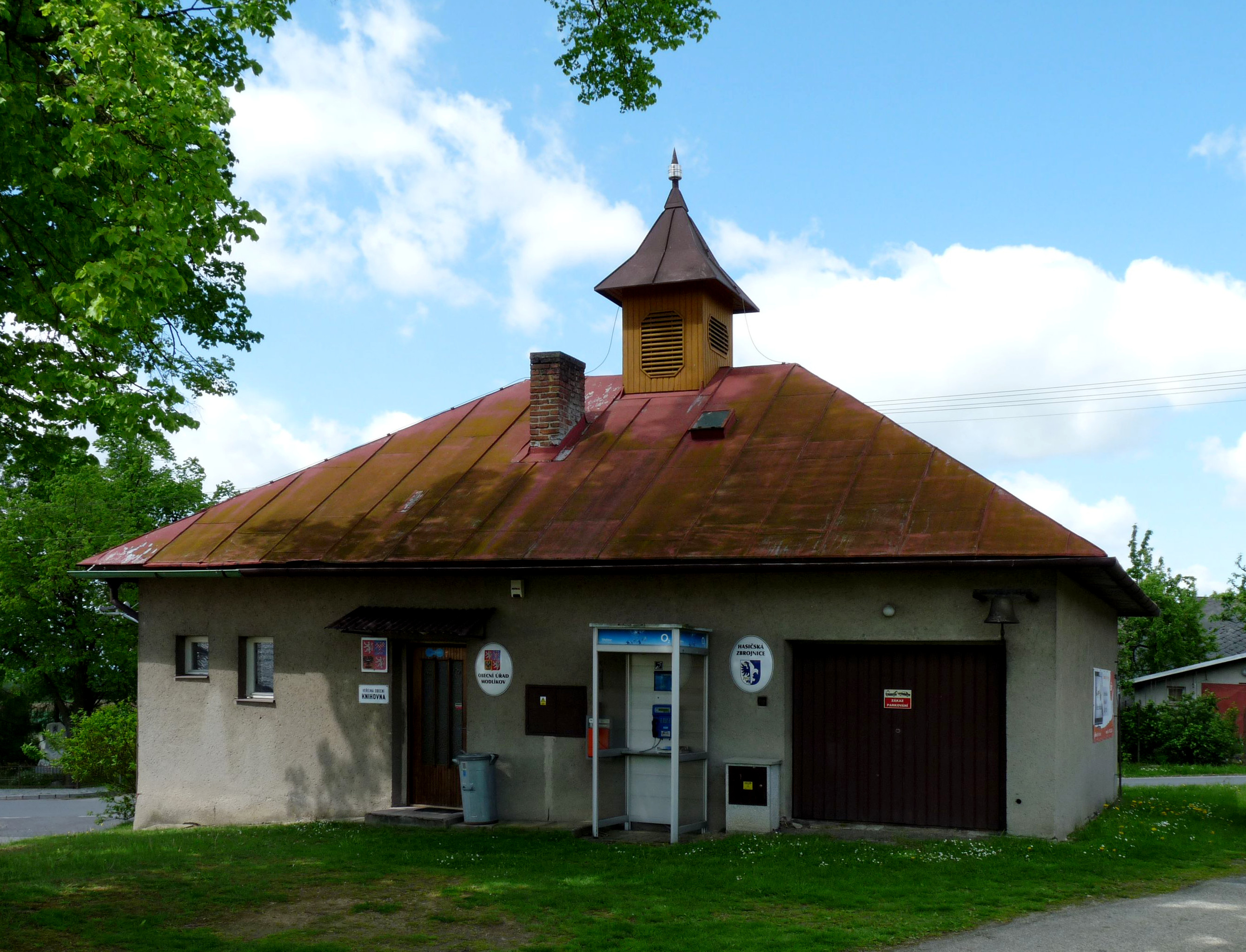 Municipal office building in the village of Modlíkov, Havlíčkův Brod District, Vysočina Region, Czech Republic.